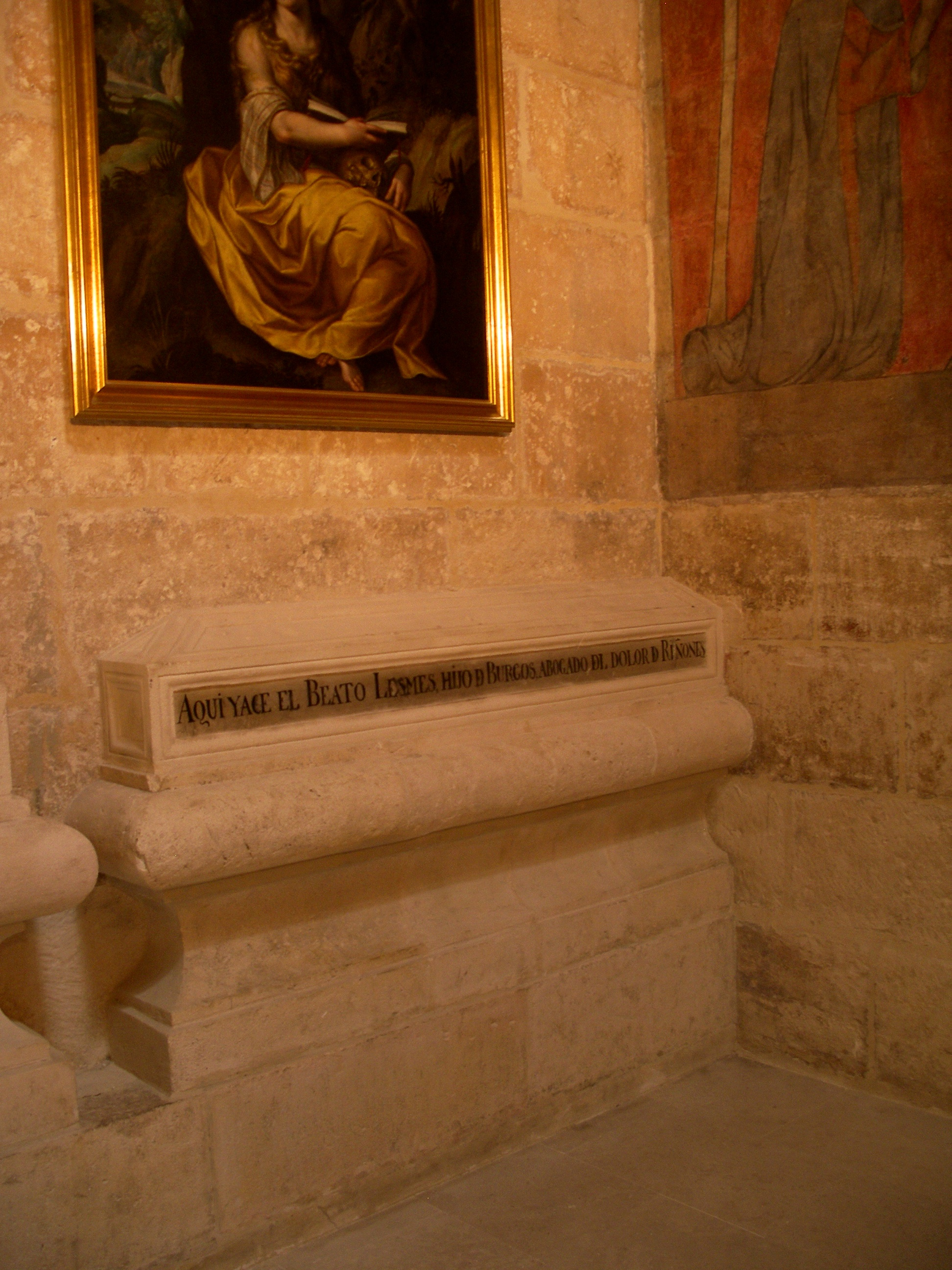 Sepulcre del beat Adelelm l'Almoiner, a la Capilla de San Juan de Sahagún de la Catedral de Burgos